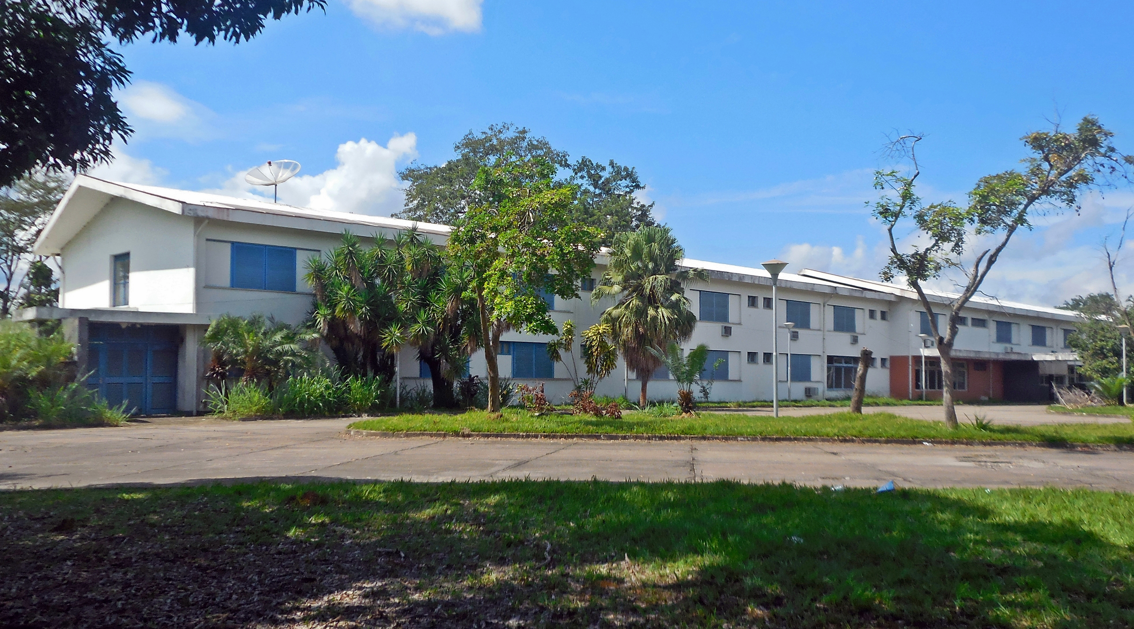 View of the Grande Hotel Ipatinga, in Ipatinga, Minas Gerais, Brazil.